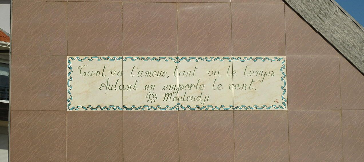 Extract of song of Mouloudji on the sundial near the beach of Capbreton, Landes, France